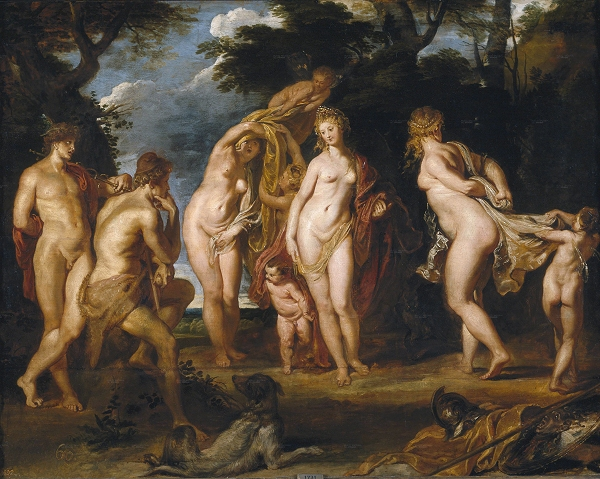 The Judgement of Paris